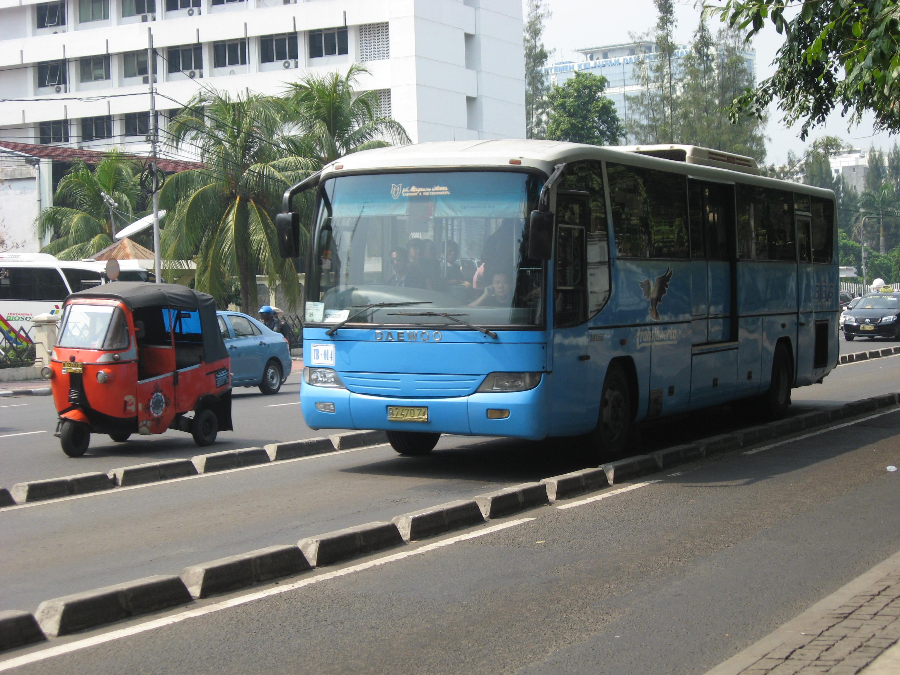 A Transjakarta bus serving Corridor 2 (Harmoni-Pulo Gadung).